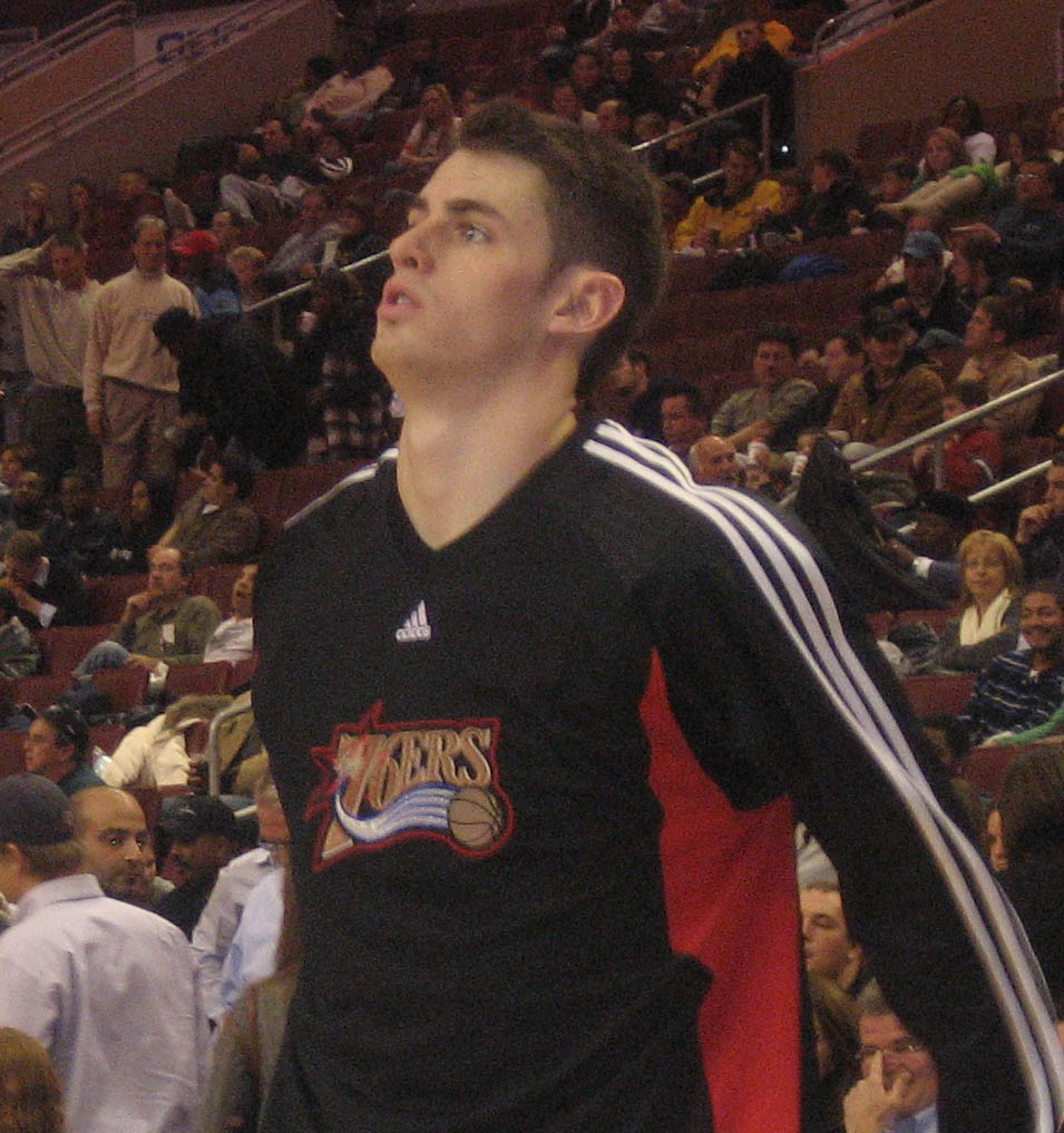 This picture was taken by me at a game.